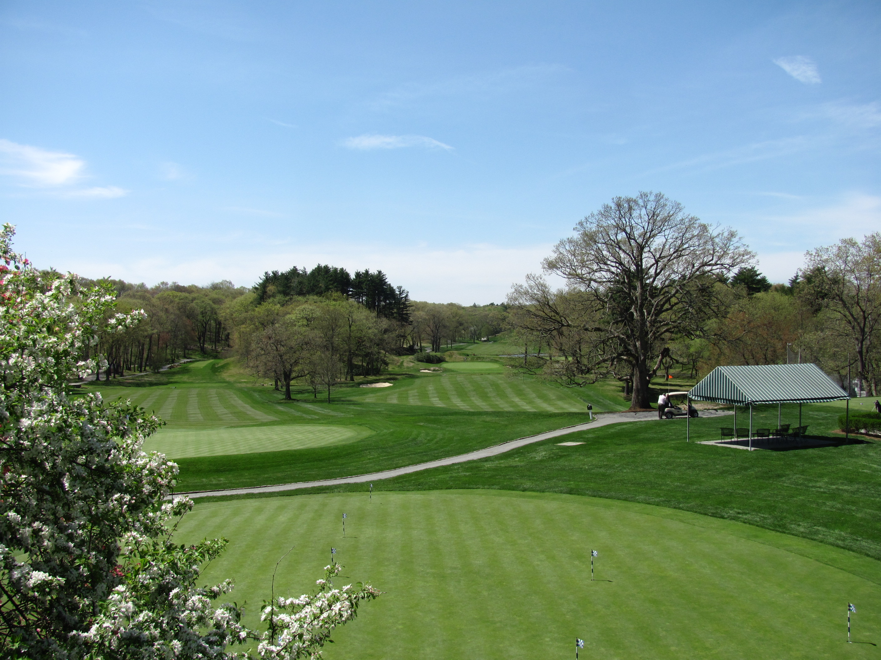 Brae Burn Country Club, West Newton Massachusetts